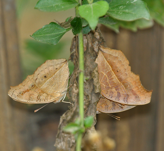 Lemon Pansy Junonia lemonias at Jayanti in Buxa Tiger Reserve in Jalpaiguri district of West Bengal, India.